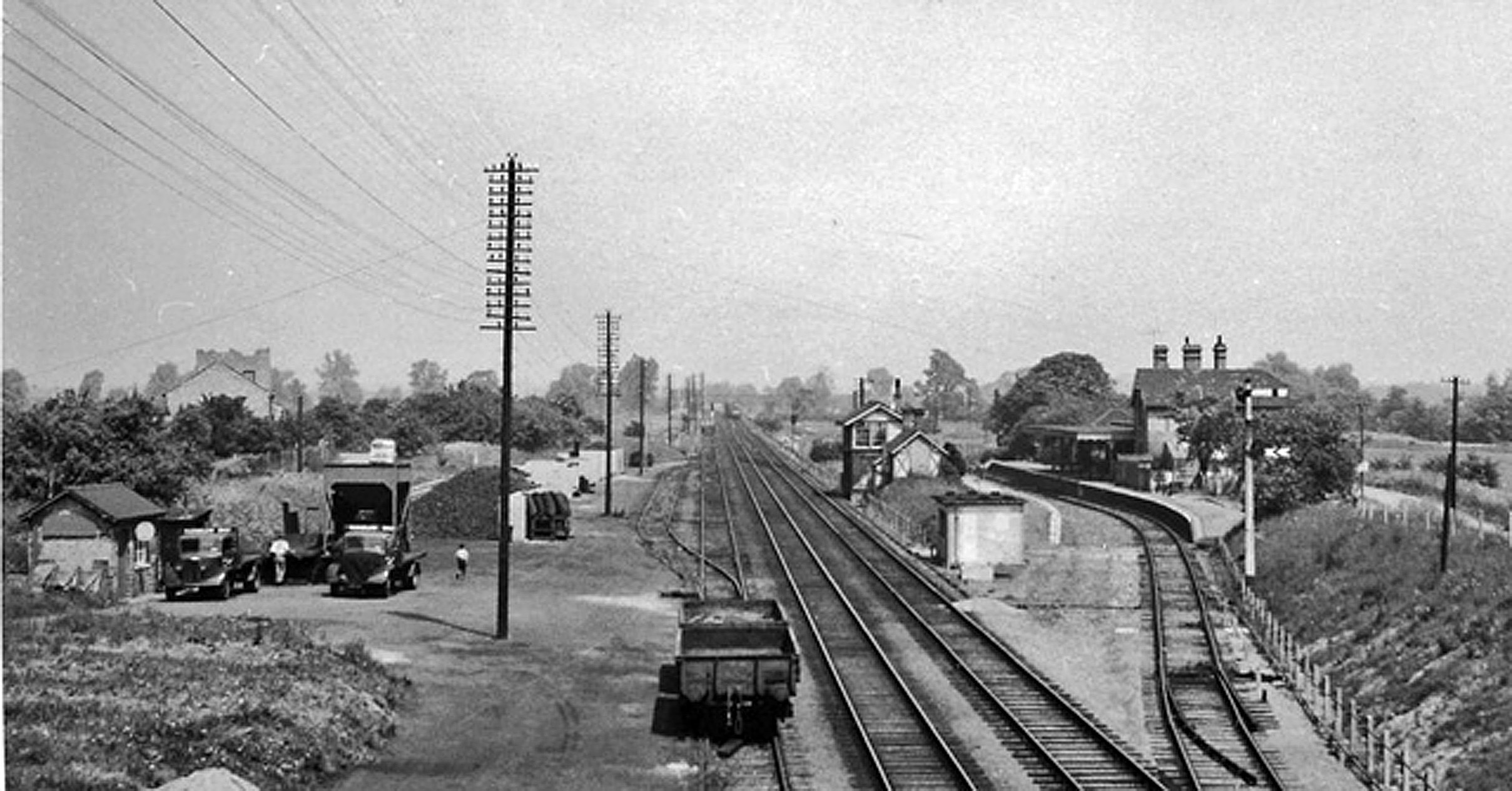 Barnwell Junction and Station. View northwards on Cambridge - Ely main line, at junction of branch to Fordham and Mildenhall. The station was only on the branch - NOT on the main line as shown in the Historic Map. It was closed to passengers on 18/6/62 (Goods on 31/10/66), the line on to Fordham and Mildenhall having been closed on 13/7/64.